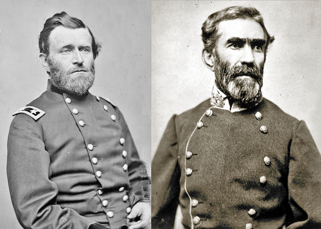 Original composition by Hal Jespersen, created in Photoshop by processing portions of two public domain images from the Library of Congress (public domain because the photographers died over 100 years ago): (U.S. Grant) and (Braxton Bragg).